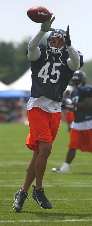 I took this picture of Obafemi Ayanbadejo on August 2, 2007 at the Chicago Bears 2007 Training Camp.